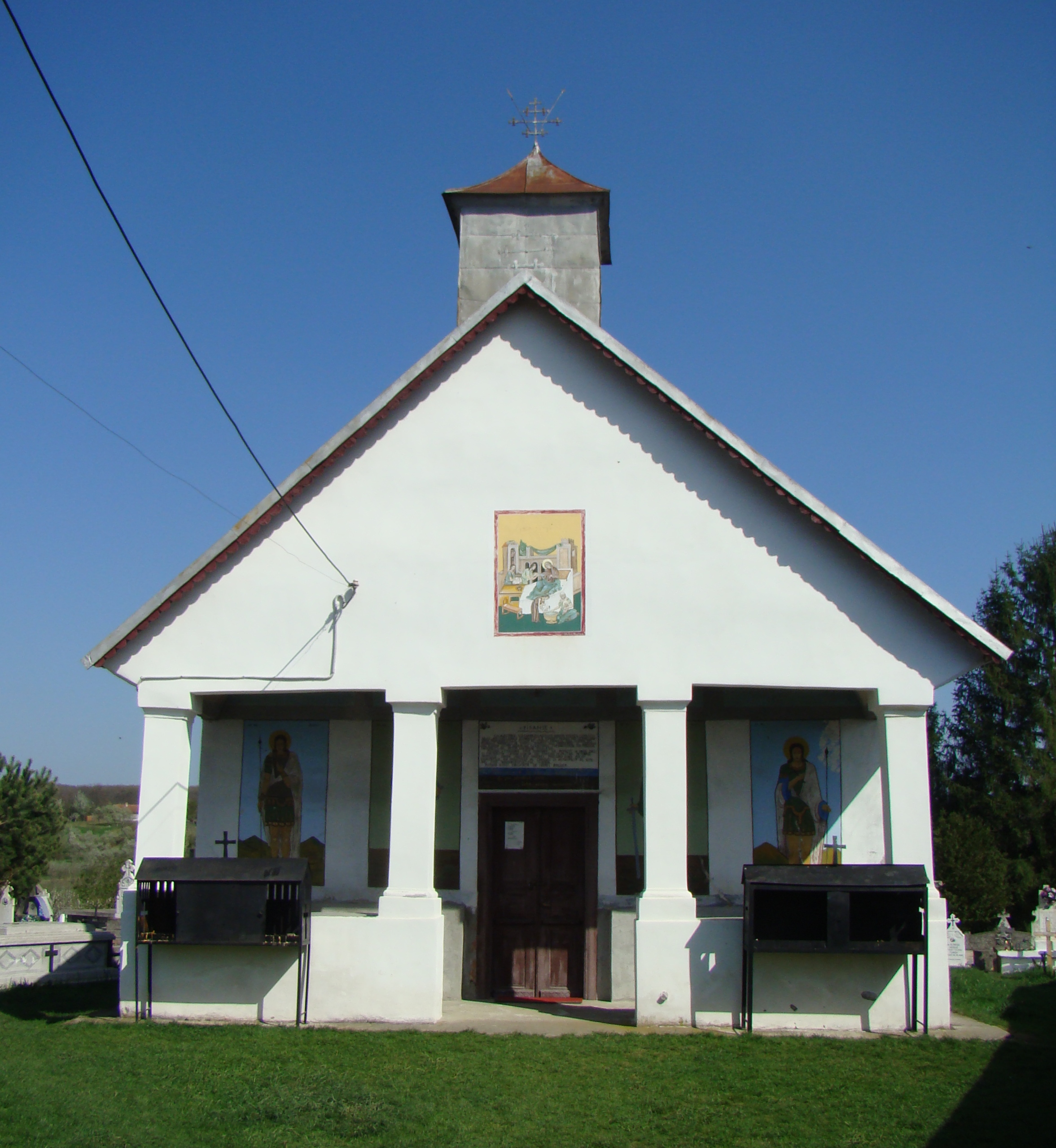 Wooden church in Cărbunești-Sat, Gorj county, Romania